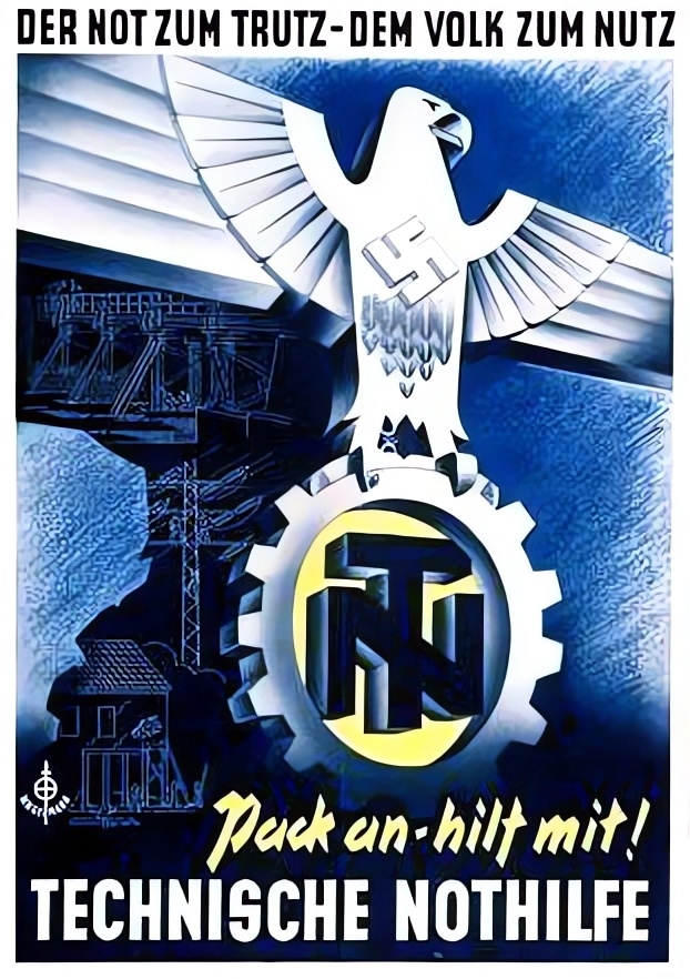 Rercuting Poster of the Technischen Nothilfe during Nazi Germany